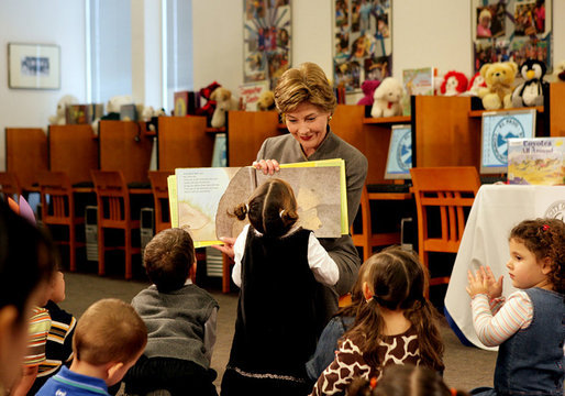 A little reader takes a closer look as Mrs. Laura Bush reads the children's book, "I Love You, Little One," by Nancy Tafuri during a visit to the Jenna Welch and Laura Bush Community Library in El Paso, Texas, Wednesday, Oct. 18, 2006. Since the library opened in 2003, the number of programs and attendance has tripled. Through the past year, the Library hosted 349 programs for more than 10,000 participants. White House photo by Shealah Craighead